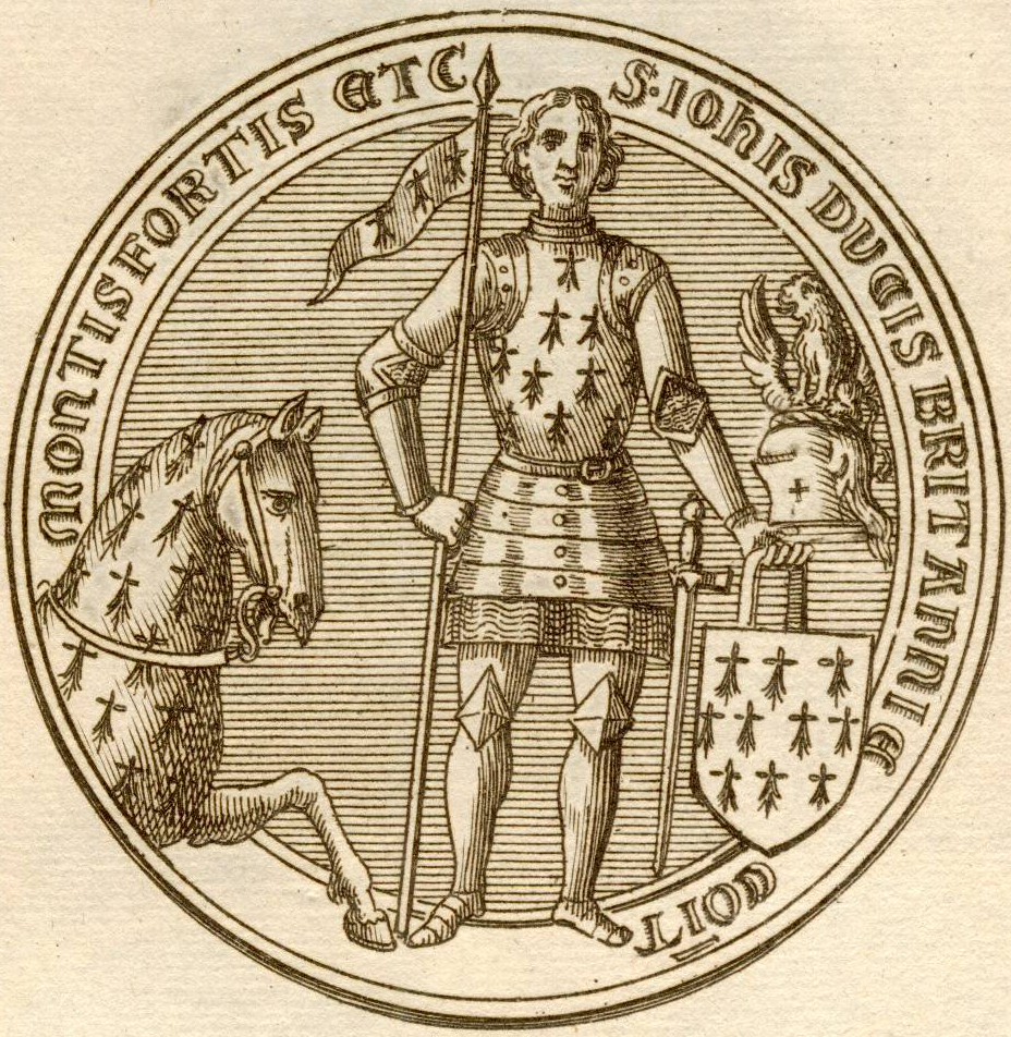 Sceau de Jean IV de Bretagne, duc de Bretagne